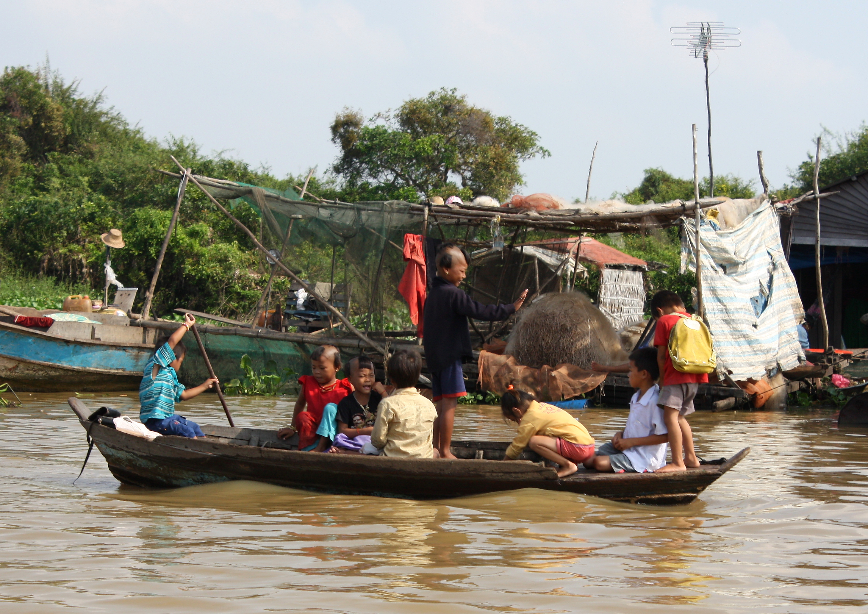 The floating village of Chong Khneas Cambodia is roughly 45 minutes outside of Siem Reap. Home to many Vietnamese and Cambodians...View my travel log with the full story at